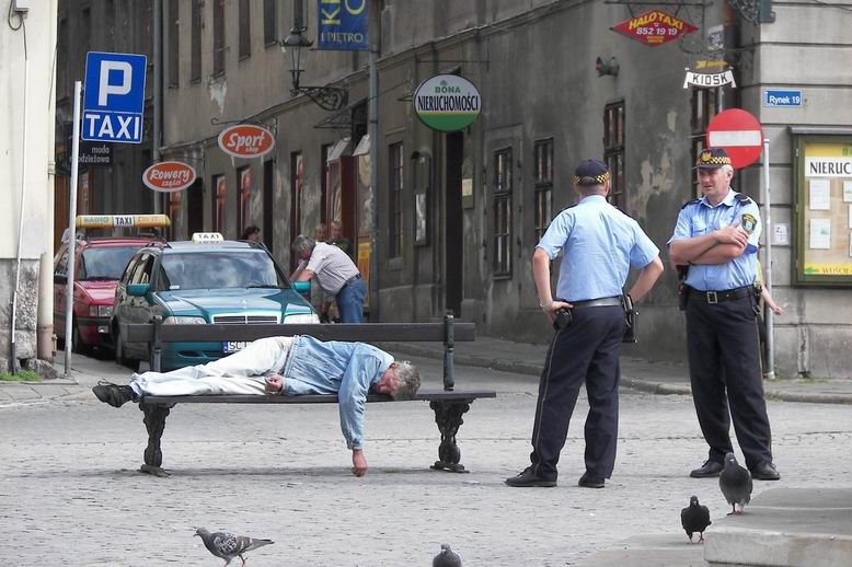 Sleeping Beauty :)